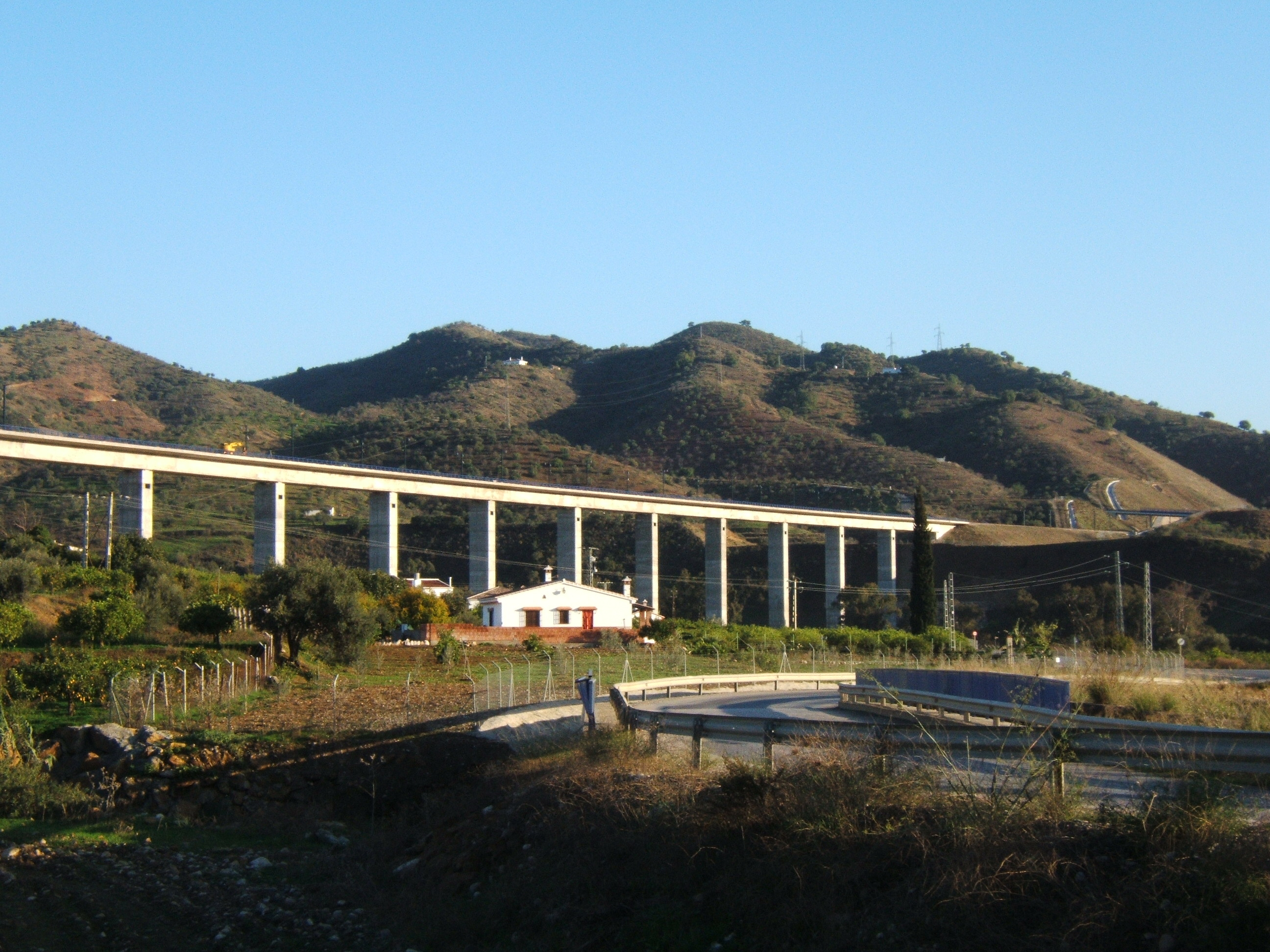 Viaduct off the Málaga Cordoba HSL. Taken close to Alora